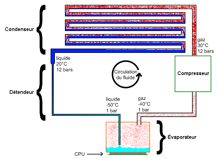 Functioning of phase-change cooling.